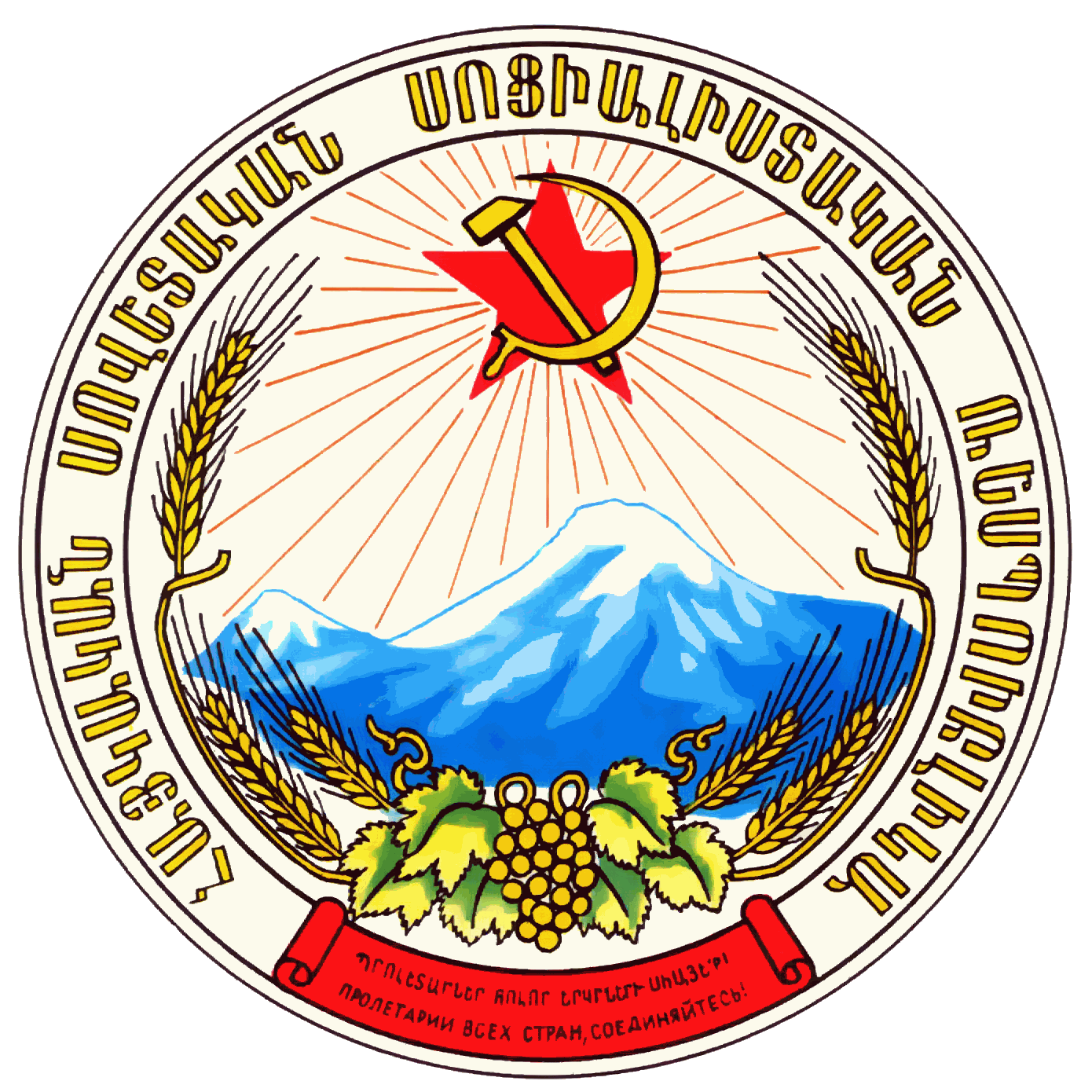 Coat_of_arms_of_Armenian_SSR.png